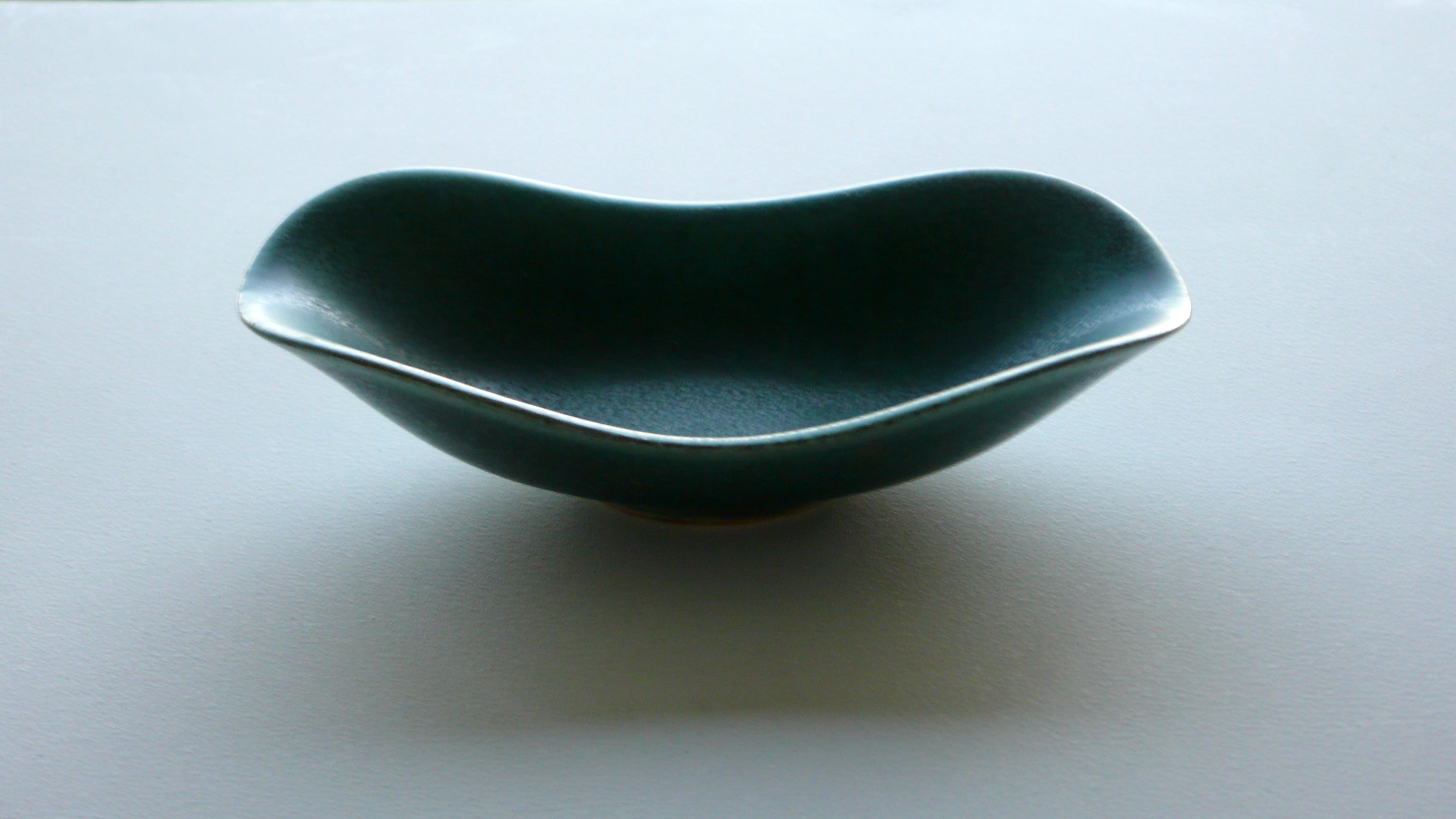 A Gunnar Nylund bowl